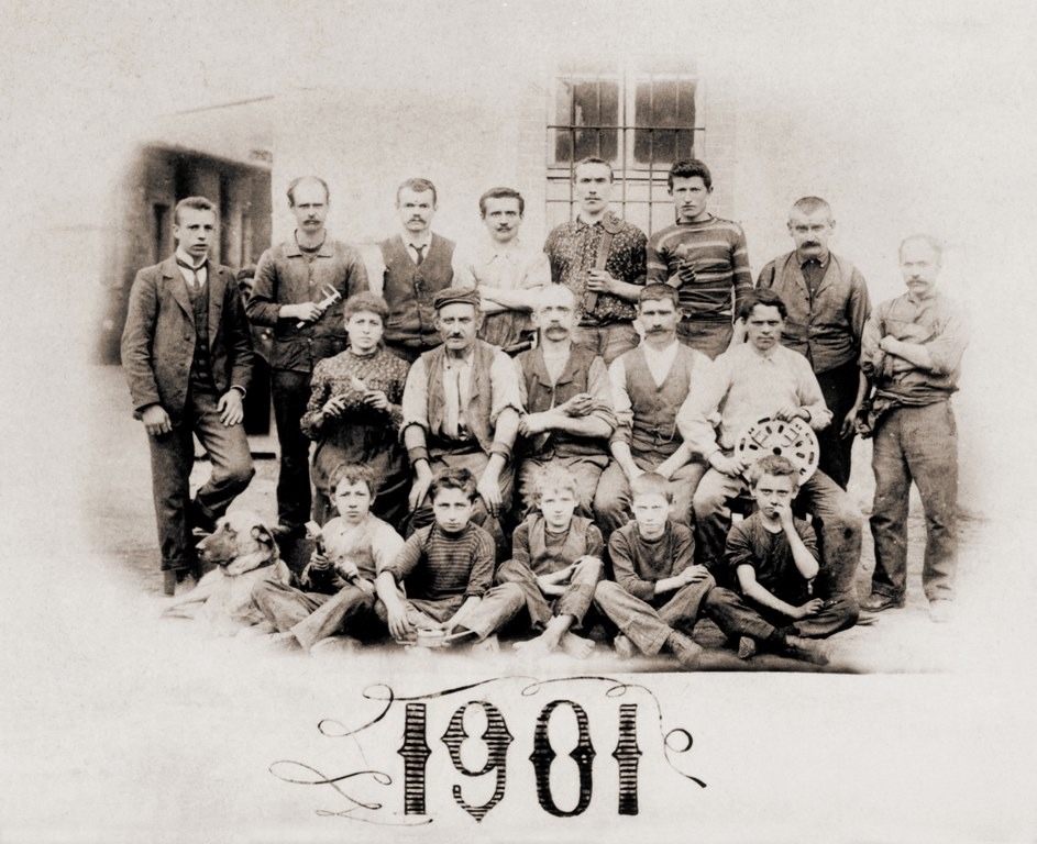 Carlo Lagostina and his son Emilio